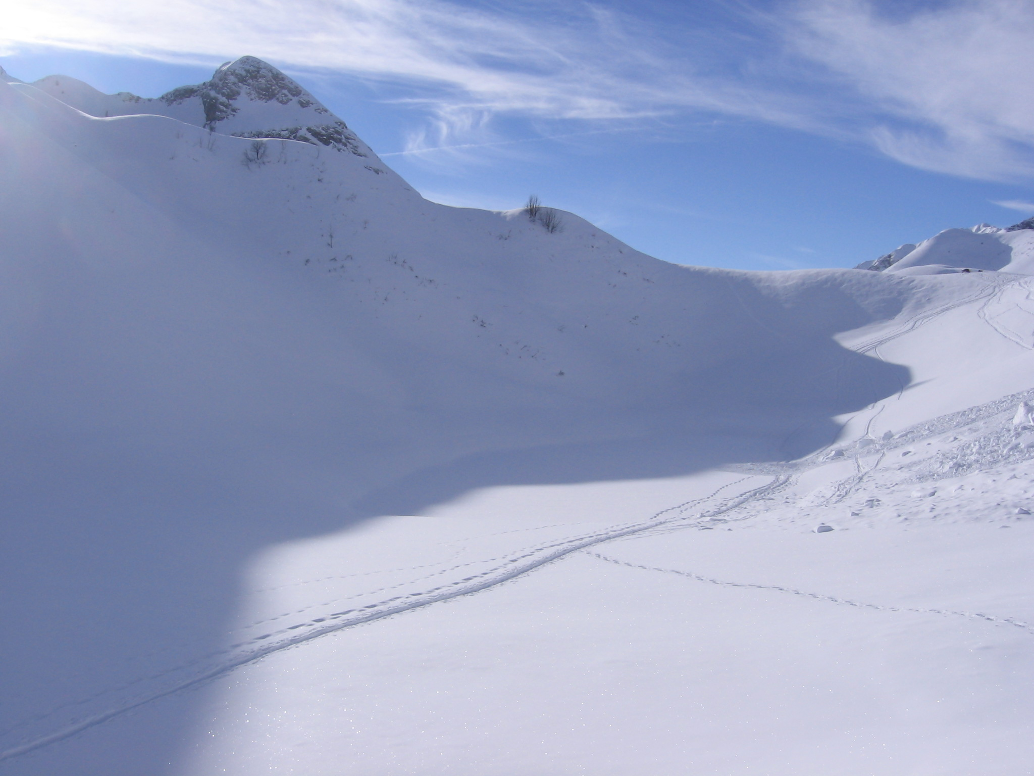 Branchino Lake, Bergamo Alps, Italy